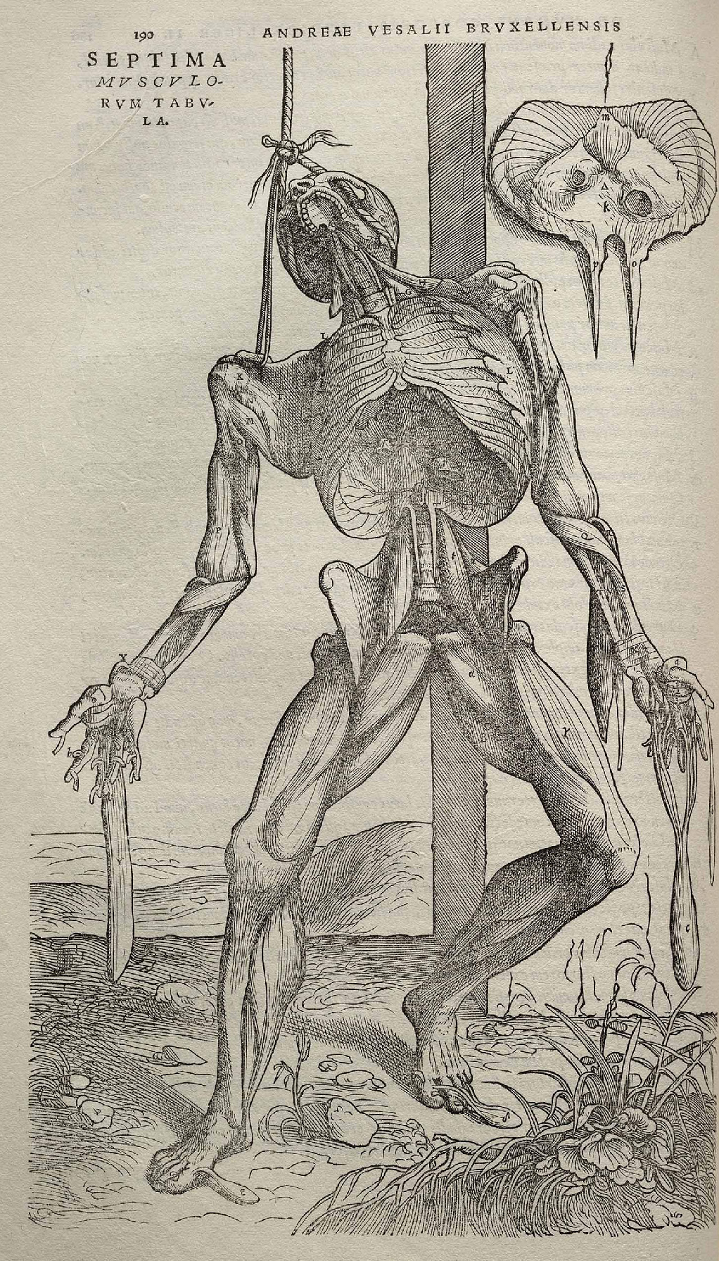 Vesalius' Fabrica contains many detailed drawings of human dissections, some of them in allegorical poses. Image from Andreas Vesalius's De humani corporis fabrica (1543), page 190.